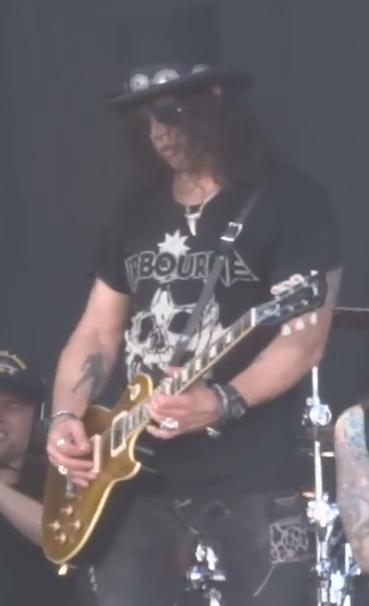 Slash with Airbourne shirt during a concert with Myles Kennedy at Sweden Rock Festival 2015